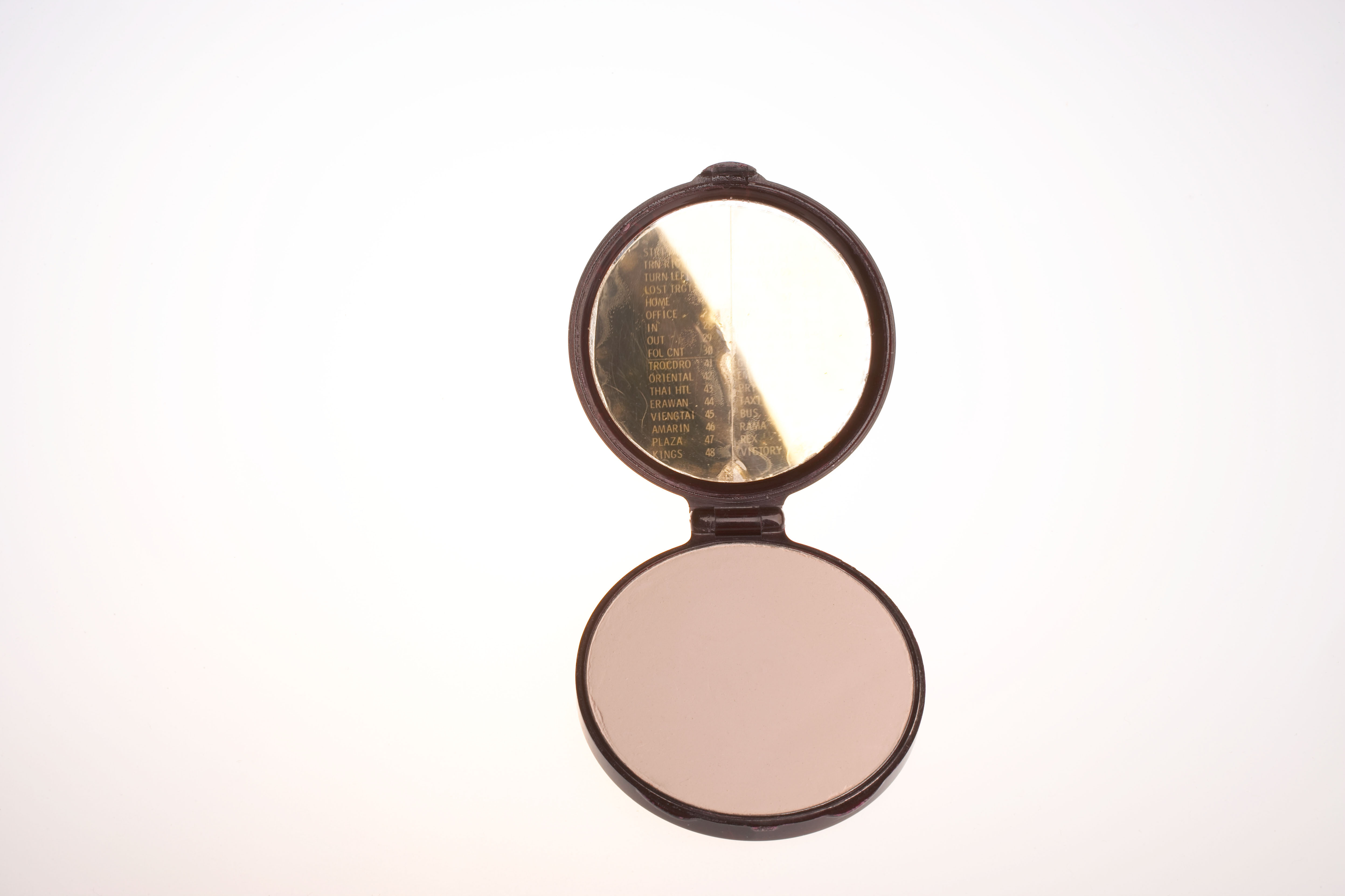 A code is a system of communication in which groups of symbols represent words. Codes may be used for brevity or security. Here, a code is concealed inside the mirror of a lady's make-up compact. By tilting the mirror at the correct angle, the code is revealed. For more information on CIA history and this artifact please visit